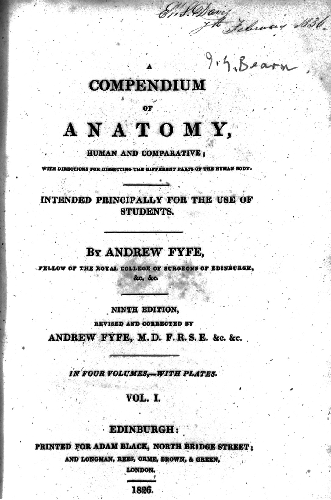 Title page Rare Books Keywords: Andrew Fyfe